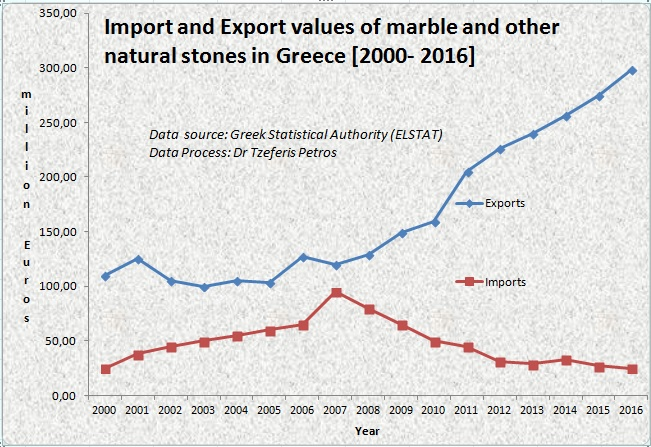 Import and Export values of marble and other natural stones in Greece (2000-2016)